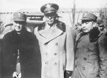 Marshall, Chang, and Chou in 1946